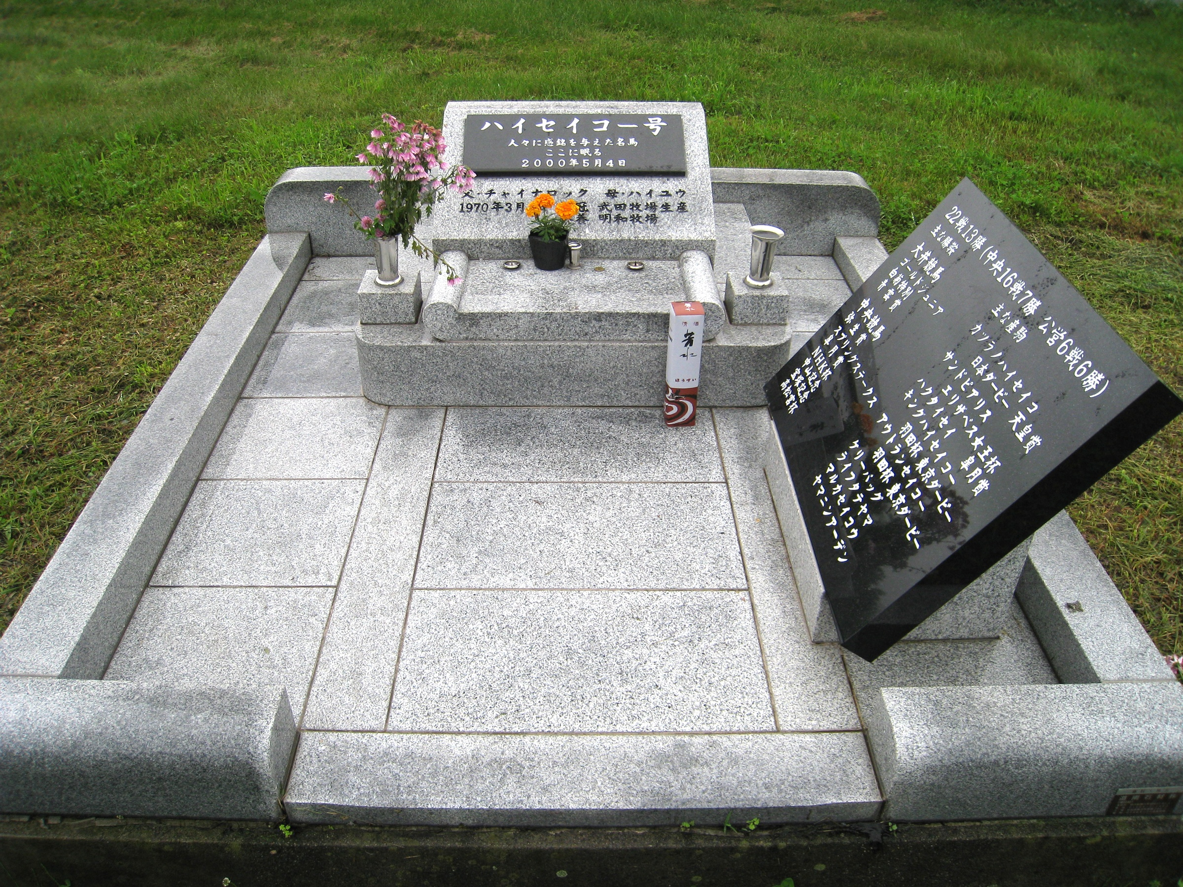 Tomb of thoroughbred racehorse Haiseiko in Niikappu, Hokkaido, This photo taken in June 22, 2008